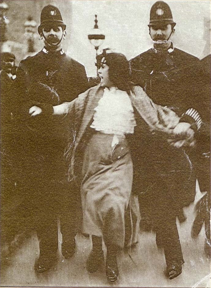 Sixteen-year-old suffragette Dora Thewlis is arrested by two policemen on 20 March 1907.